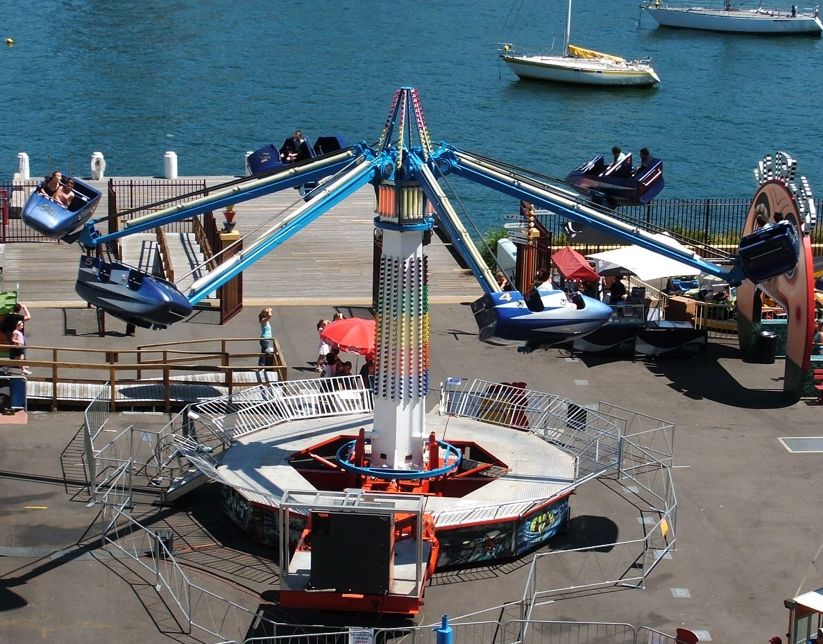 Image is of a Hurricane amusement ride in operation, taken at Luna Park Sydney on the 8th October 2006. Photograph by Saberwyn. Cropped from original photograph